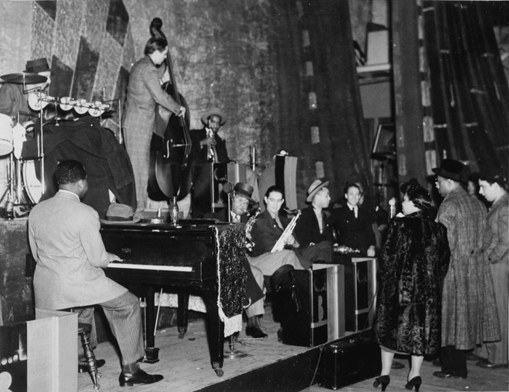 Count Basie, Ray Bauduc, Bob Haggart, Harry Edison, Herschel Evans, Eddie Miller, Lester Young, Matty Matlock, June Richmond, and Bob Crosby at the Howard Theater, Washington, D.C.